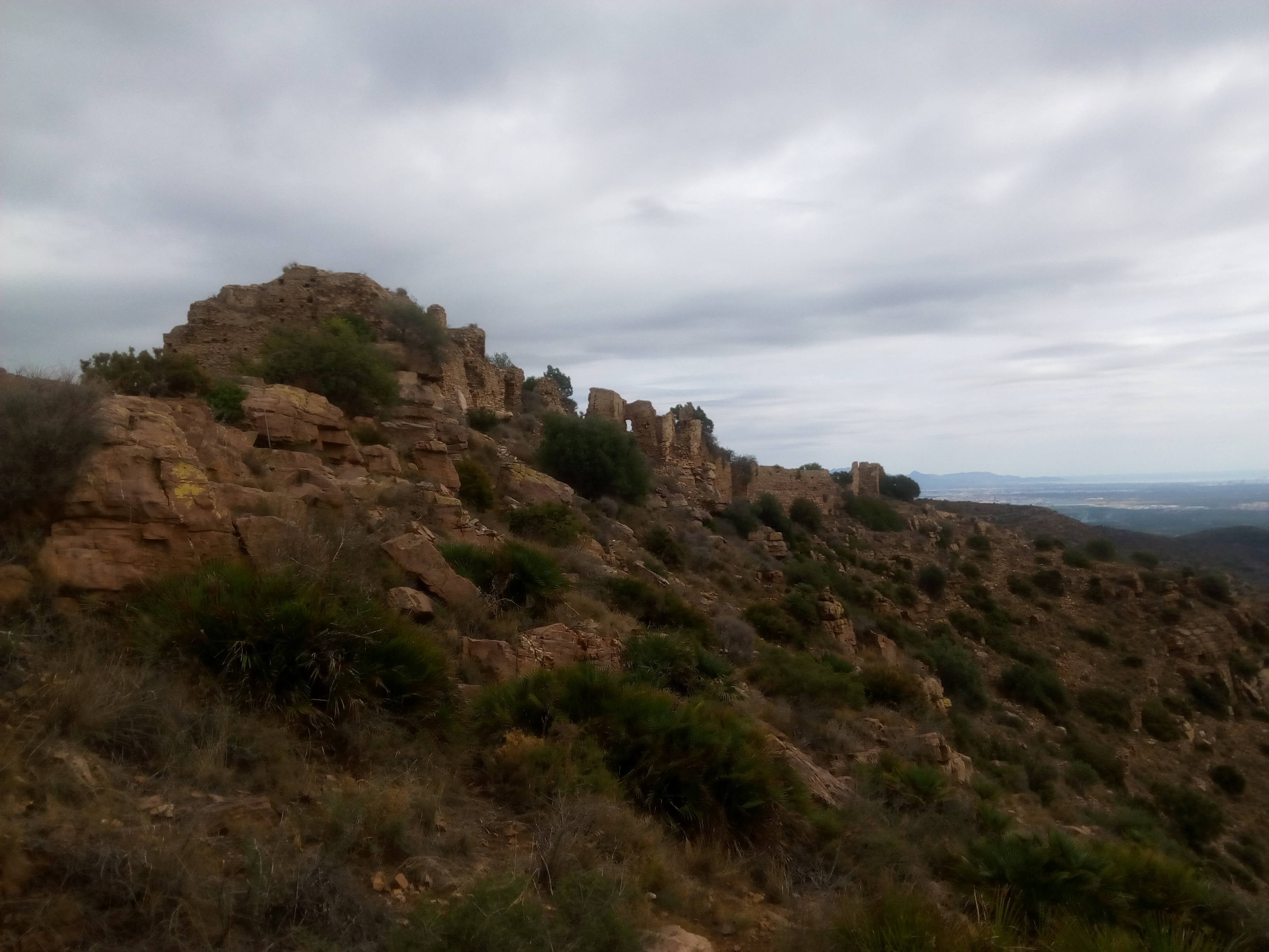 Eastern walls of Uixò's castle